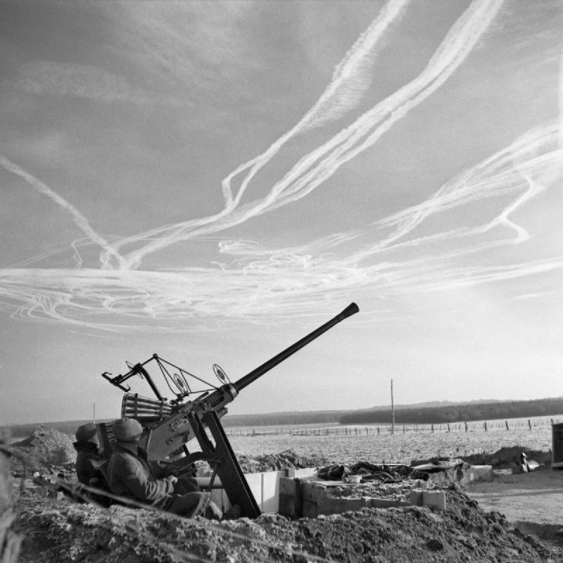 The crew of a Bofors anti-aircraft gun view vapour trails in the sky high above the Dutch-German border near Brunssum, 25 December 1944. The crew of a Bofors anti-aircraft gun view vapour trails in the sky high above the Dutch-German border near Brunssum, 25 December 1944.